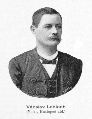 Portrait of Václav Lebloch (1854-1924), Czech politician.